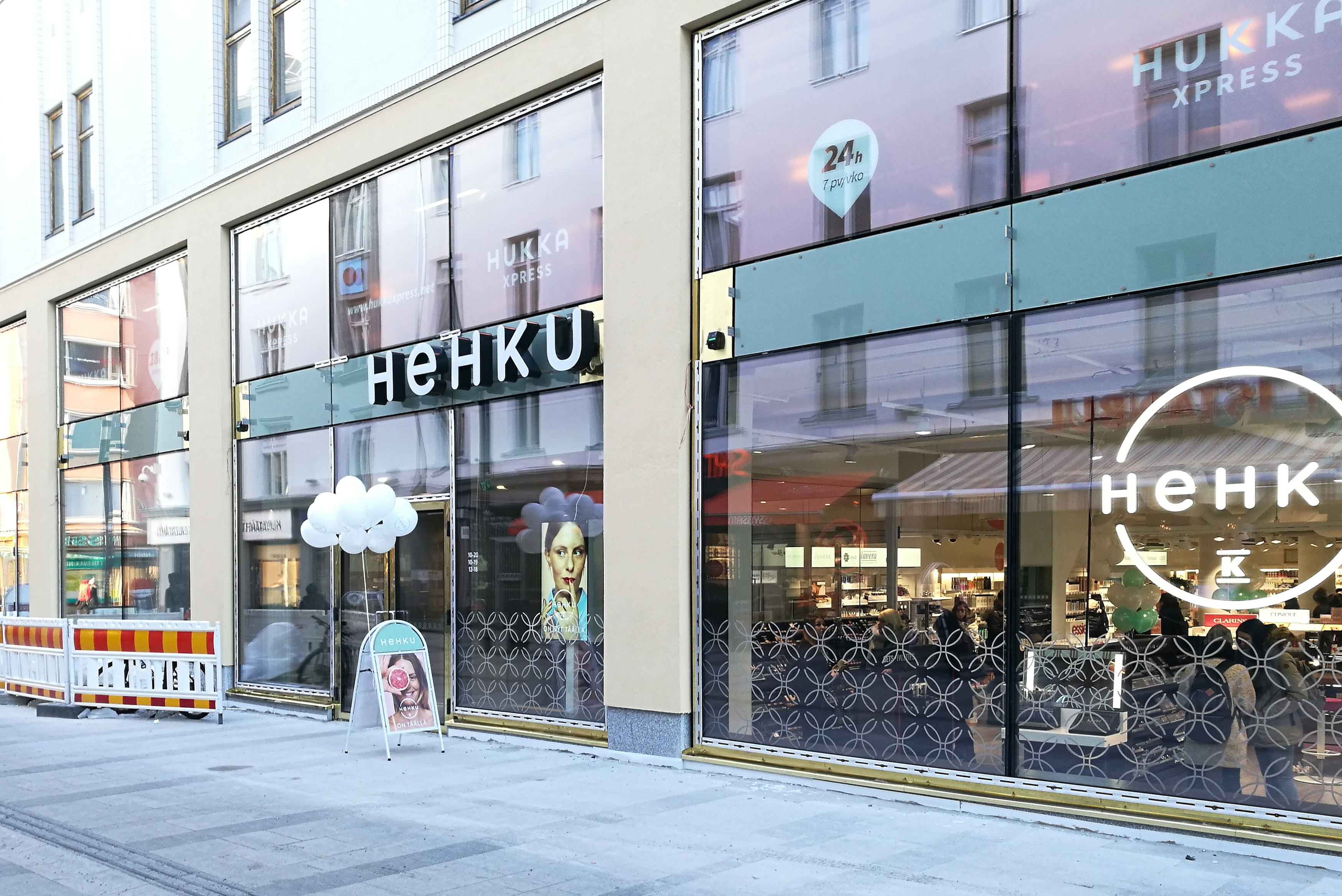 The Hehku cosmetic shop at the Kauppurienkatu street in Oulu.